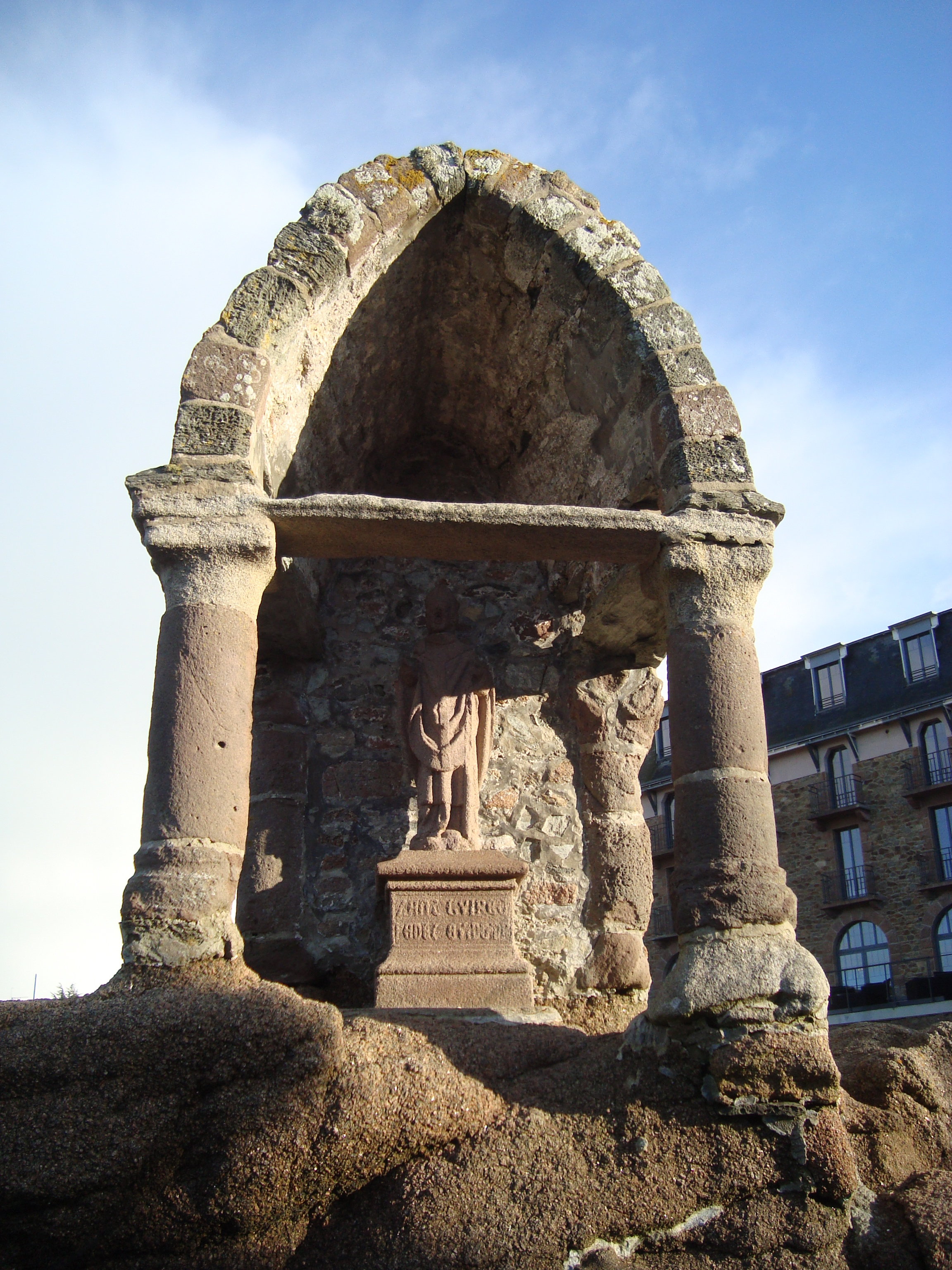 Saint-Guirec Oratory in Ploumanac'h, Perros-Guirec